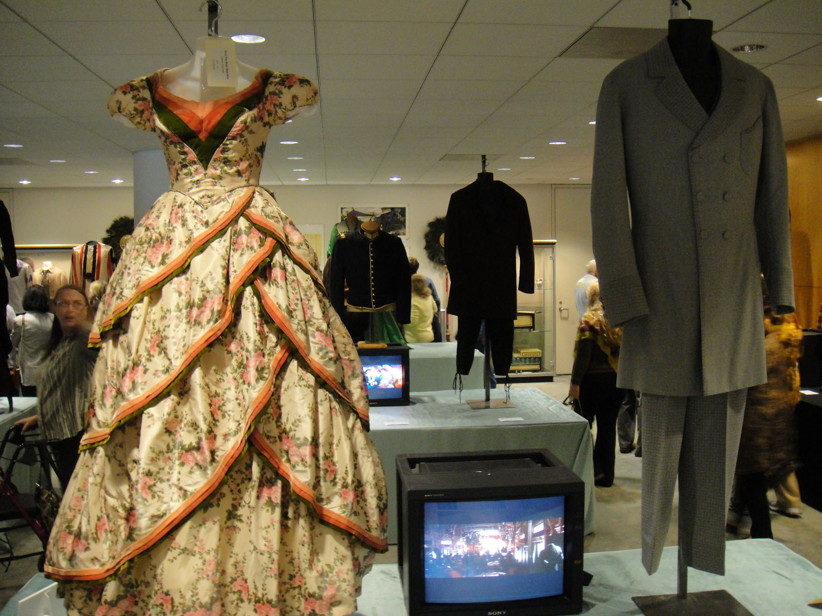 Debbie Reynolds and Gregory Peck costumes from "How the West Was Won" at the Debbie Reynolds Auction Breaks Up Historic Hollywood Collection (The Paley Center for Media in Beverly Hills, Los Angeles, CA, USA).